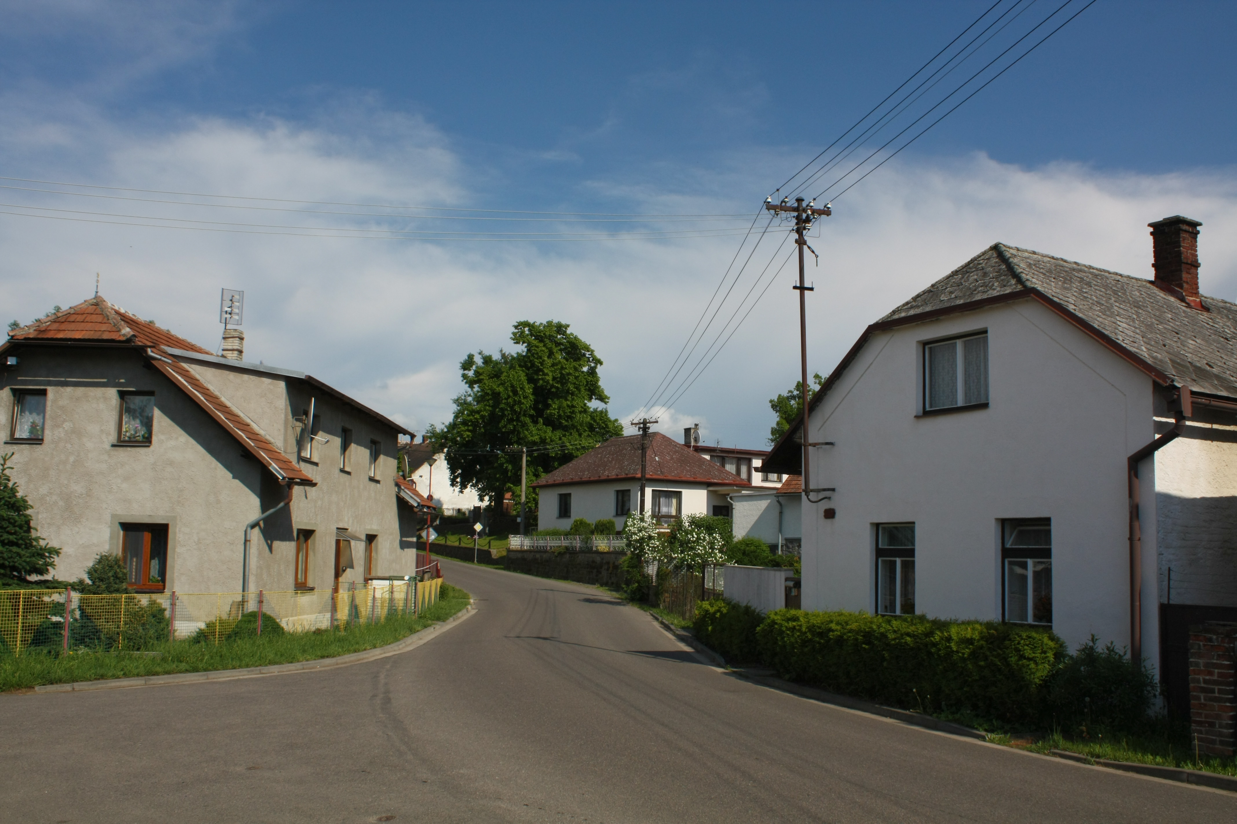 Bítovany, Chrudim District, Czech Republic Object location49° 53′ 51.3″ N, 15° 51′ 53.5″ E